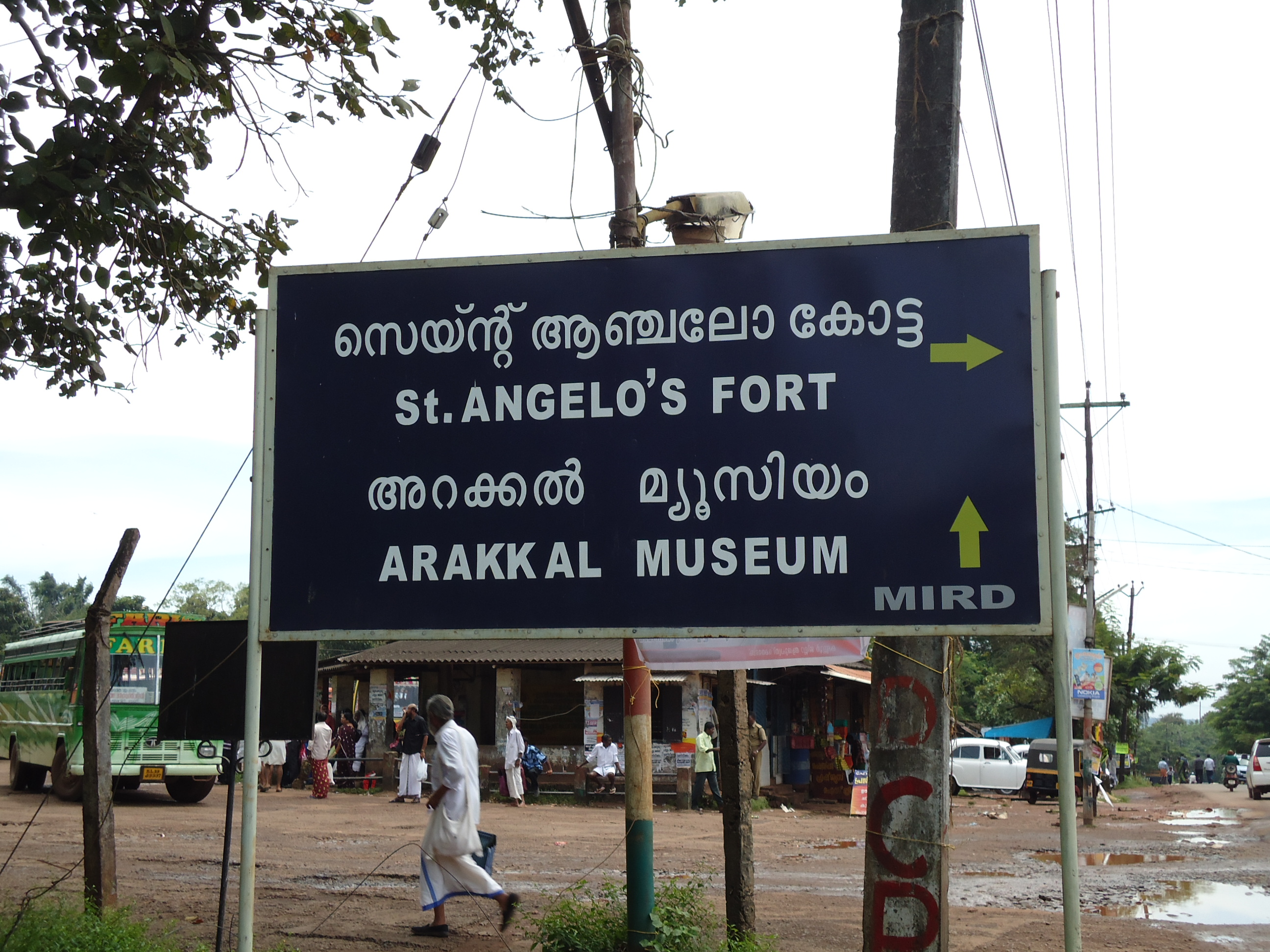 Sign Board for tourist indicating St Angelo Fort and Arakkal Museum